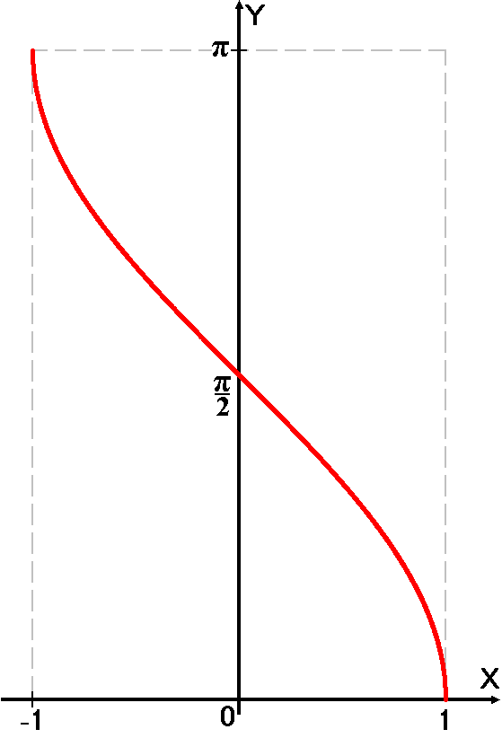 graph of arccosine function